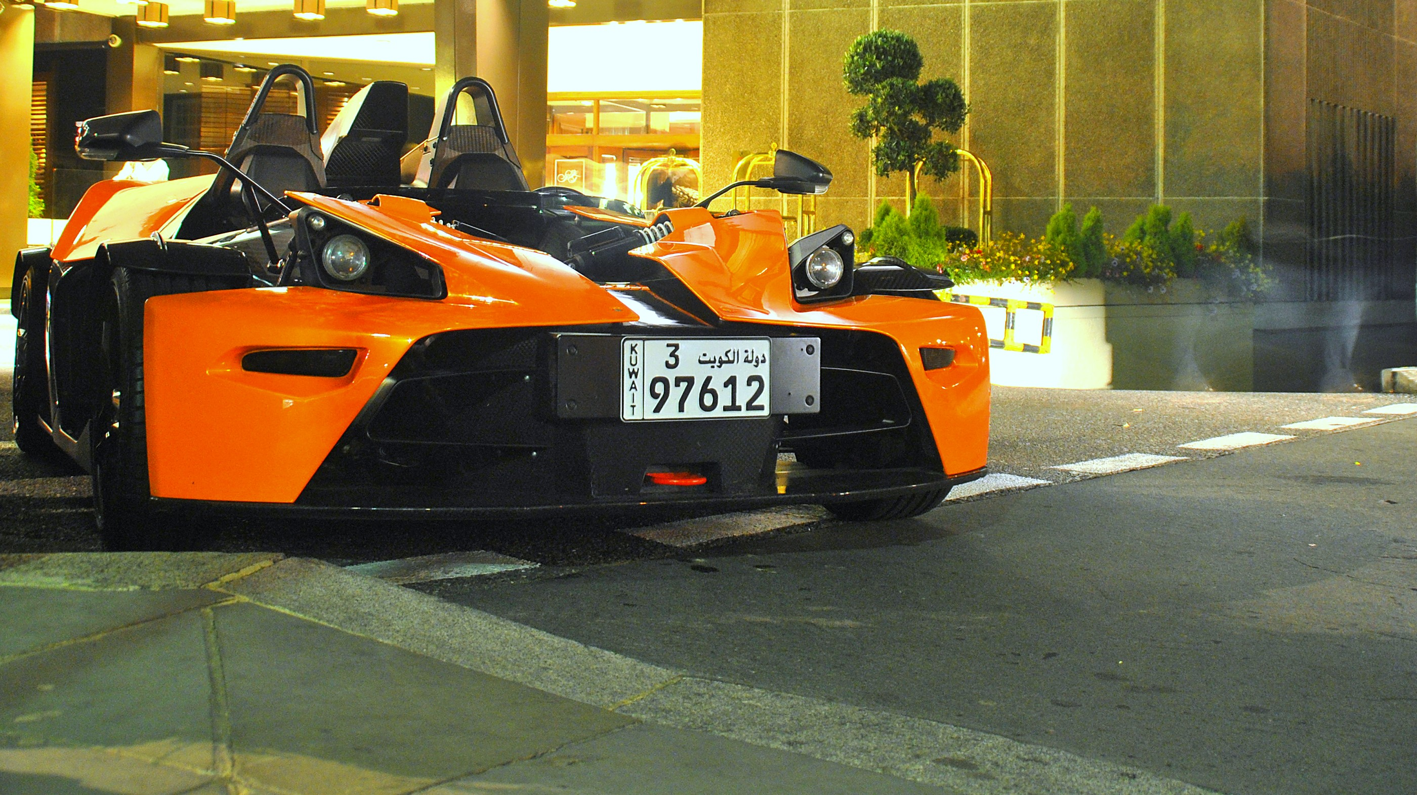 KTM X-Bow pictured in London